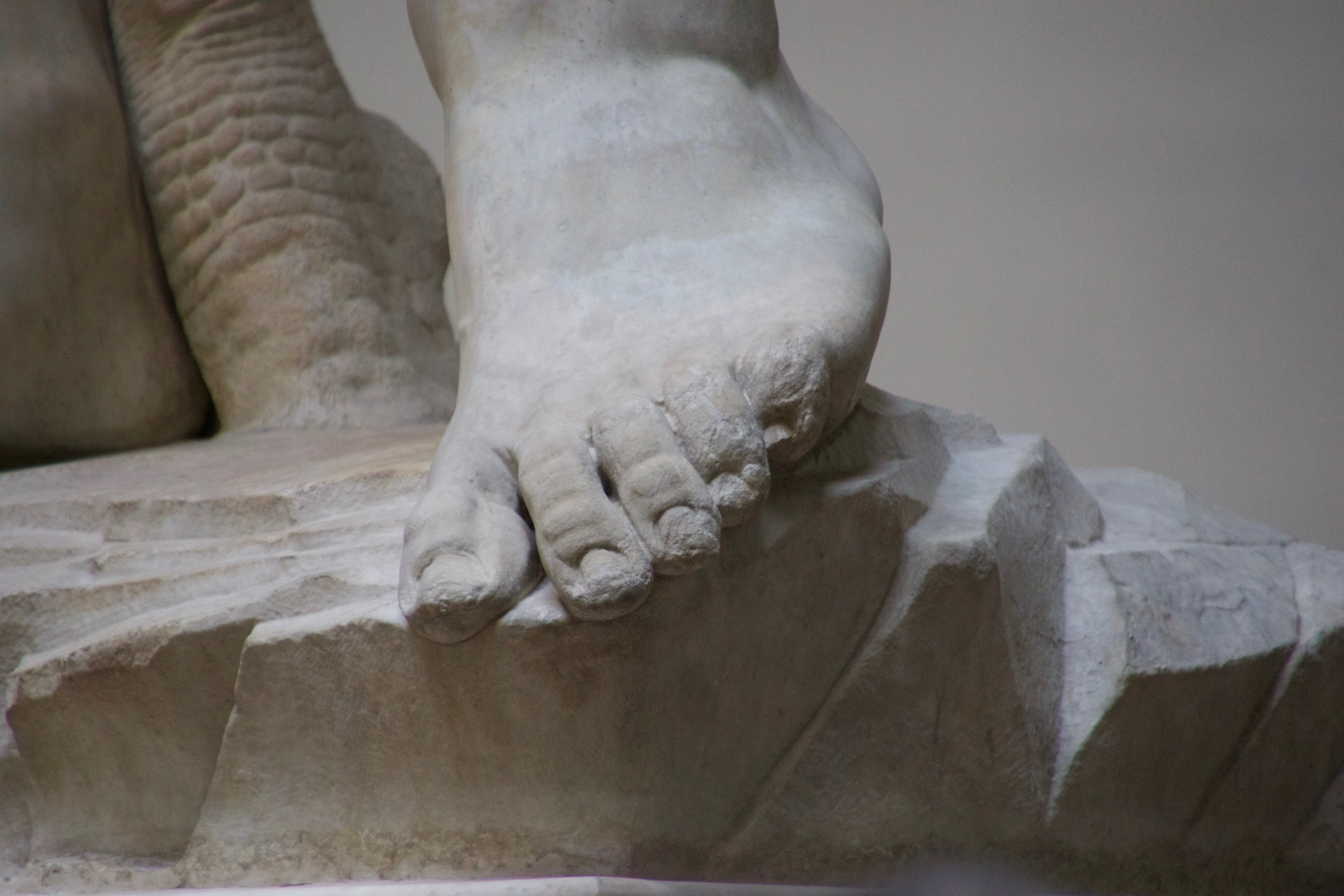 Photograph of damage to David's left foot.